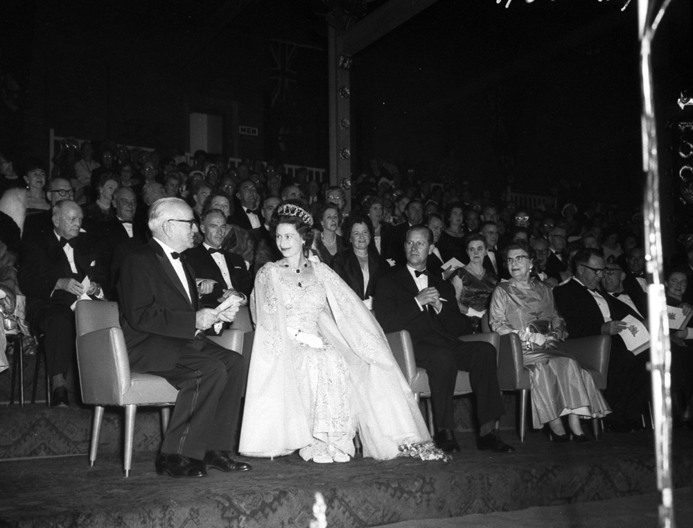 Format: Negative Find more detailed information about this photographic collection: .au/item/itemDetailPaged.aspx?itemID=90363 From the collection of the State Library of New South Wales